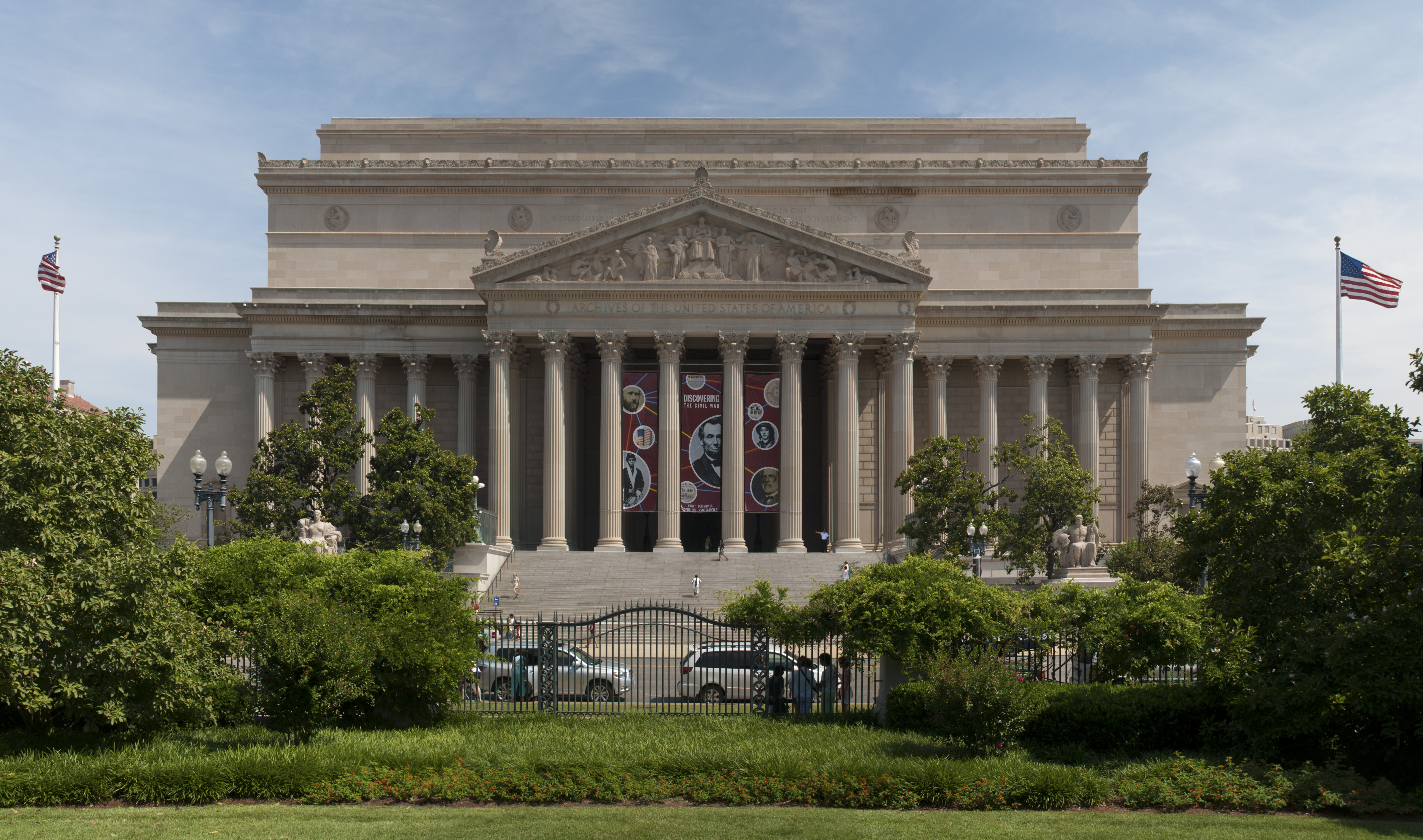 Photograph of the United States National Archives Building, Washington D.C.